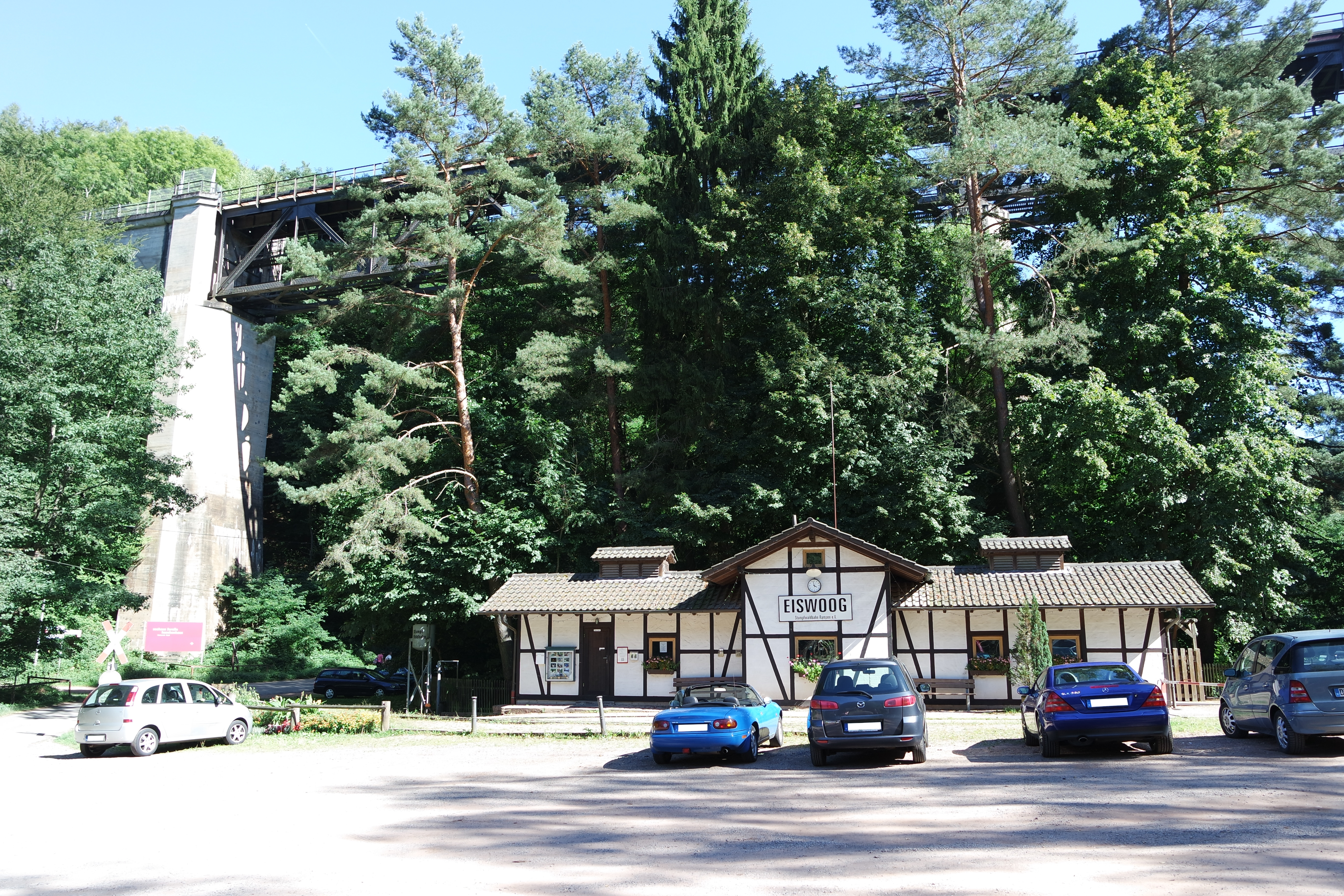 Main station of the Stumpfwald railway at Eiswoog. The Eis Valley Viaduct of the Eis Valley Railway is above.